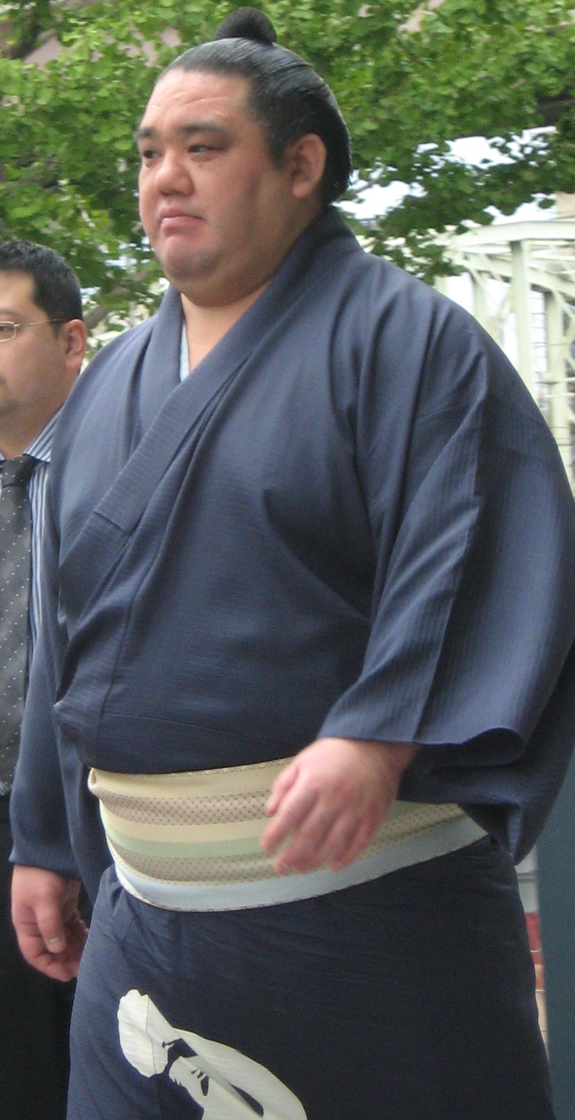 Picture taken outside Sep 2008 tournament